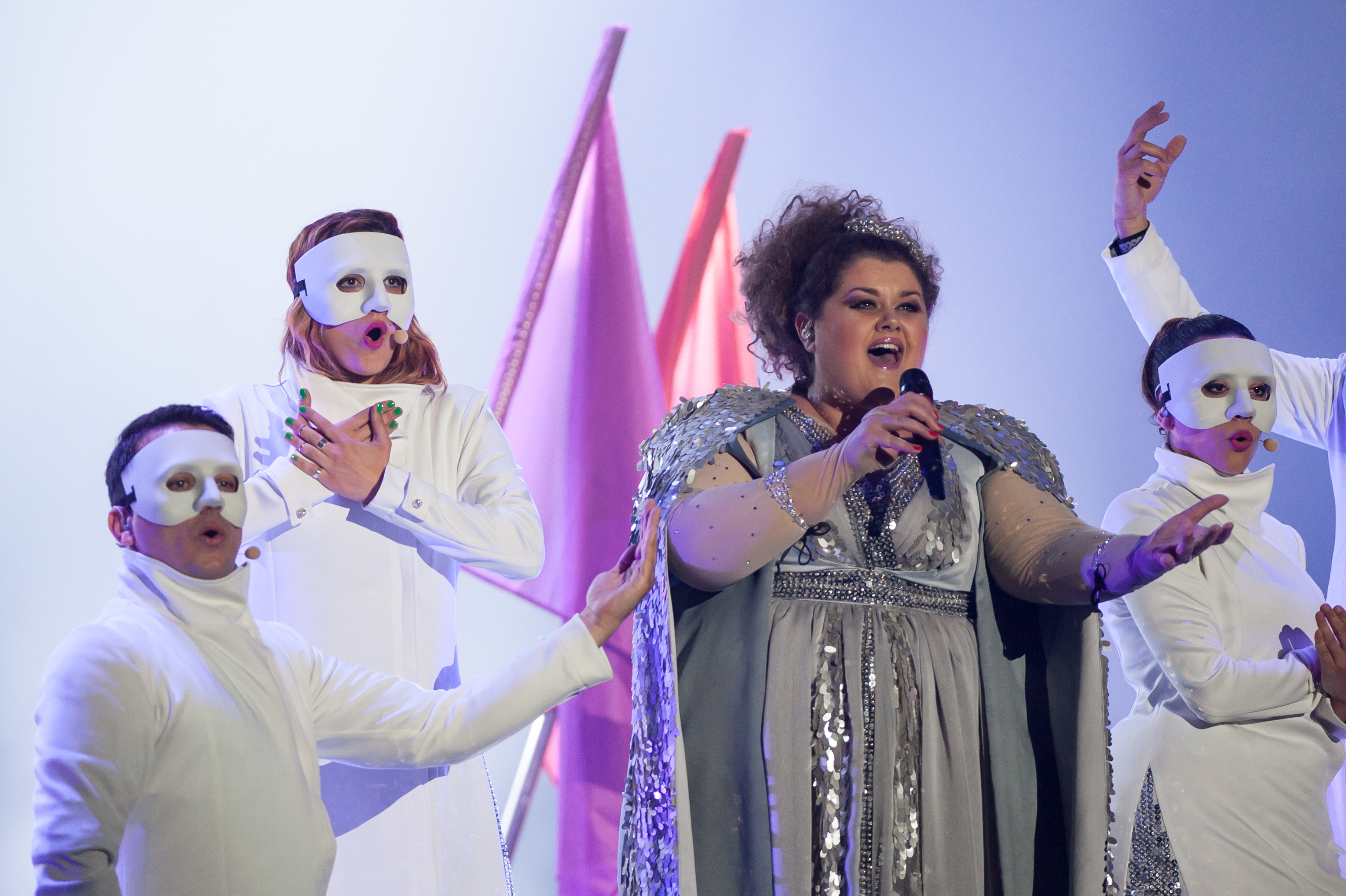 Eurovision Song Contest Vienna 2015: Bojana Stamenov